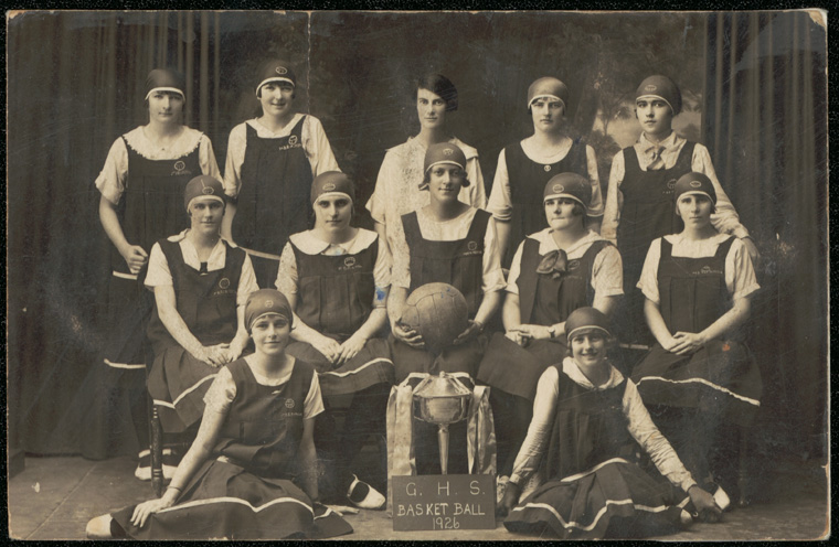 Title: Grafton High School - G.H.S. [Grafton High School] Basket ball 1926 - teacher Miss R. Collins Dated: 1926 Digital ID: Series: School photograph collection Rights: No known copyright restrictions We'd love to if you use our photos/documents. Many other photos in our collection are available to view and browse on our website using